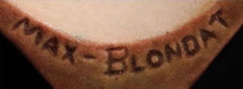 Max Blondat's signature